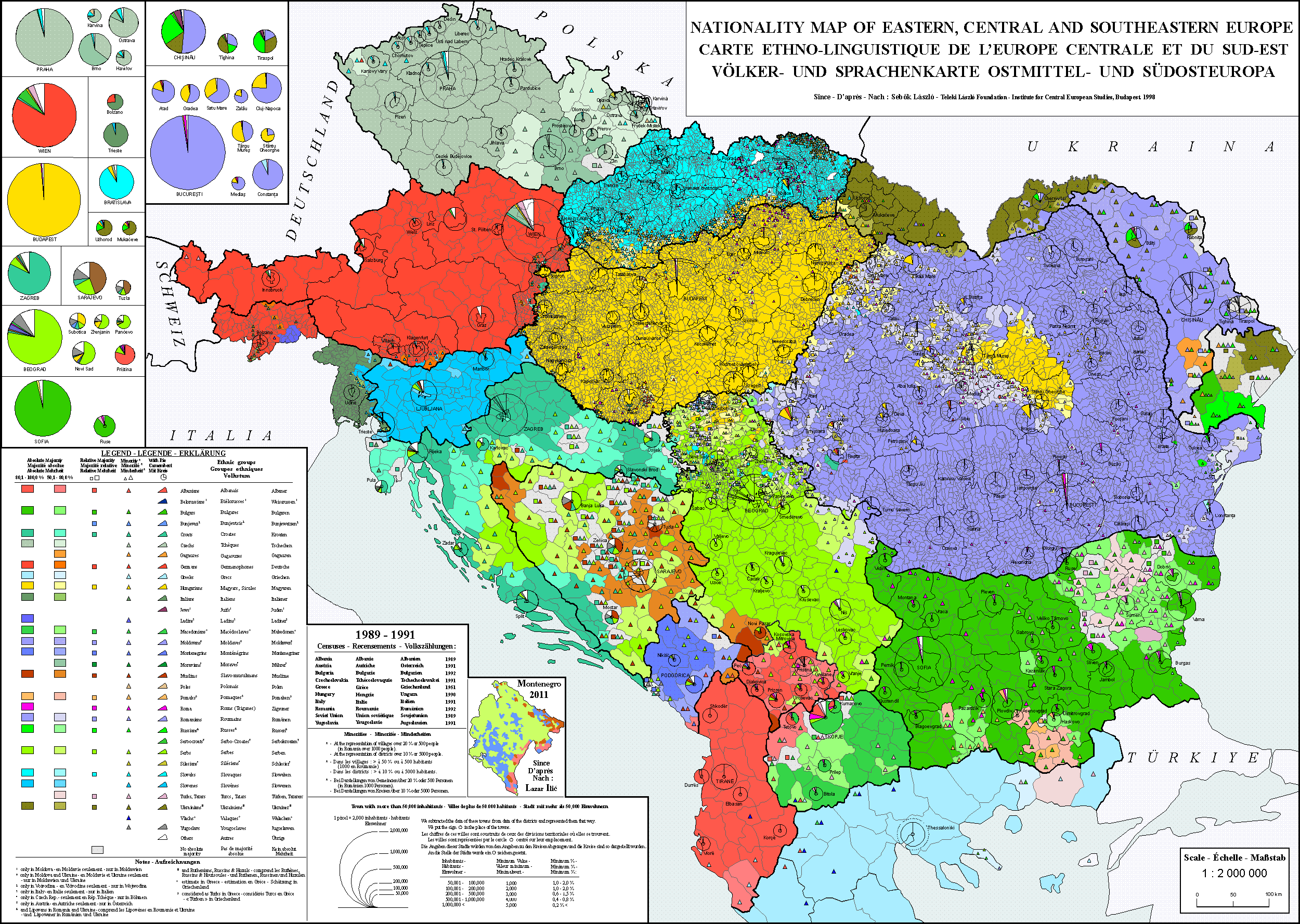 Linguistic map derived from the statistical compilations of the Laszlo Sebok team, but different from their works.